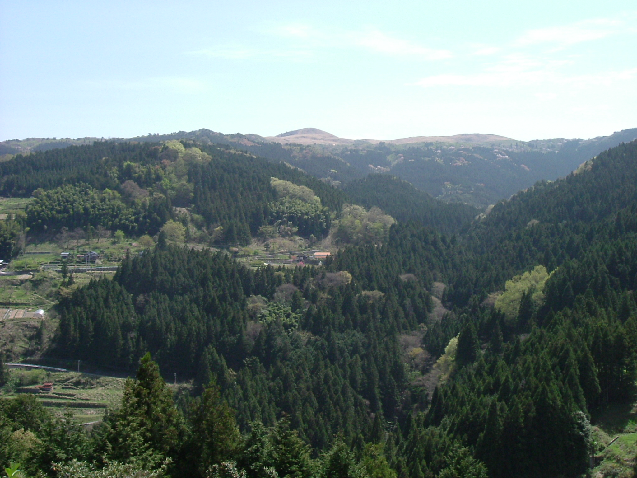 Shiodzukamine as seen from the NNW in Shikoku, Japan.